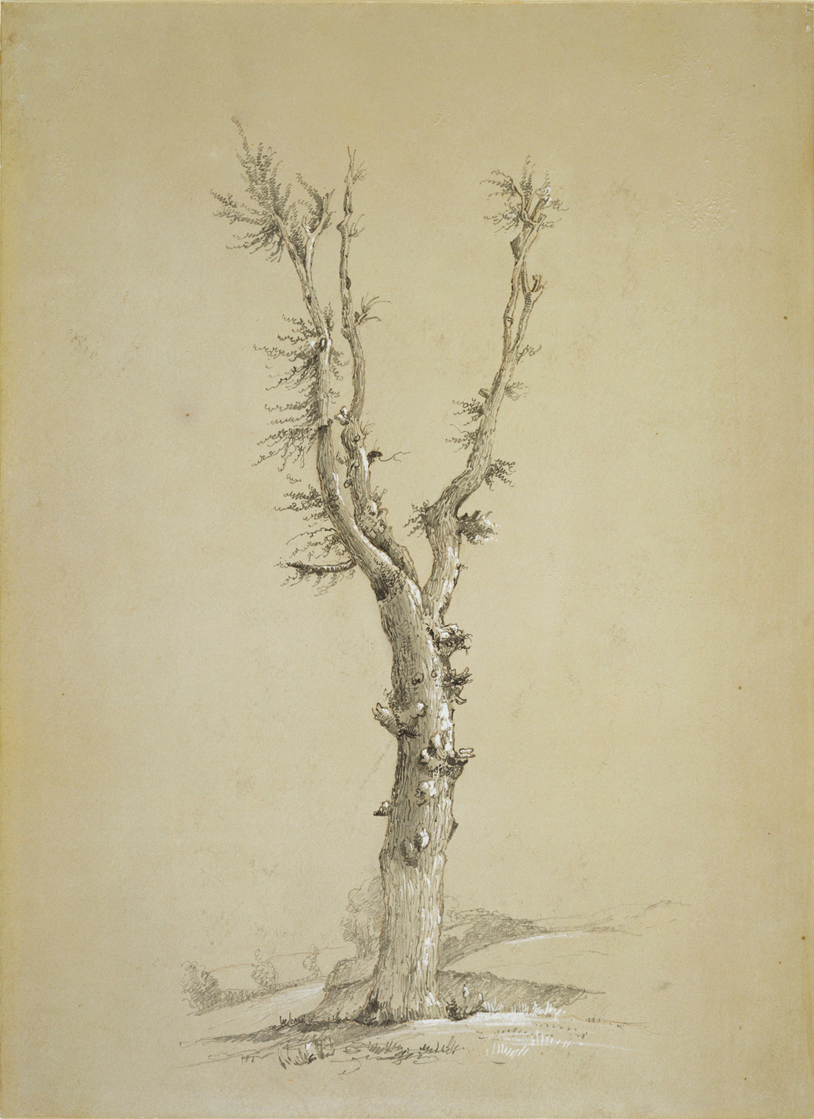 The Waterloo Elm, pencil and scraper, by Anna Children (1799–1871). This tree had marked Wellington’s HQ at Waterloo, and had been stripped for souvenirs. It was cut down not long after this drawing was made; the artist’s father then obtained the wood, from which a chair was made as a gift to George IV. Cropped from File:Waterloo Elm by Anna Children RCIN 990723.tif by Odysseus1479